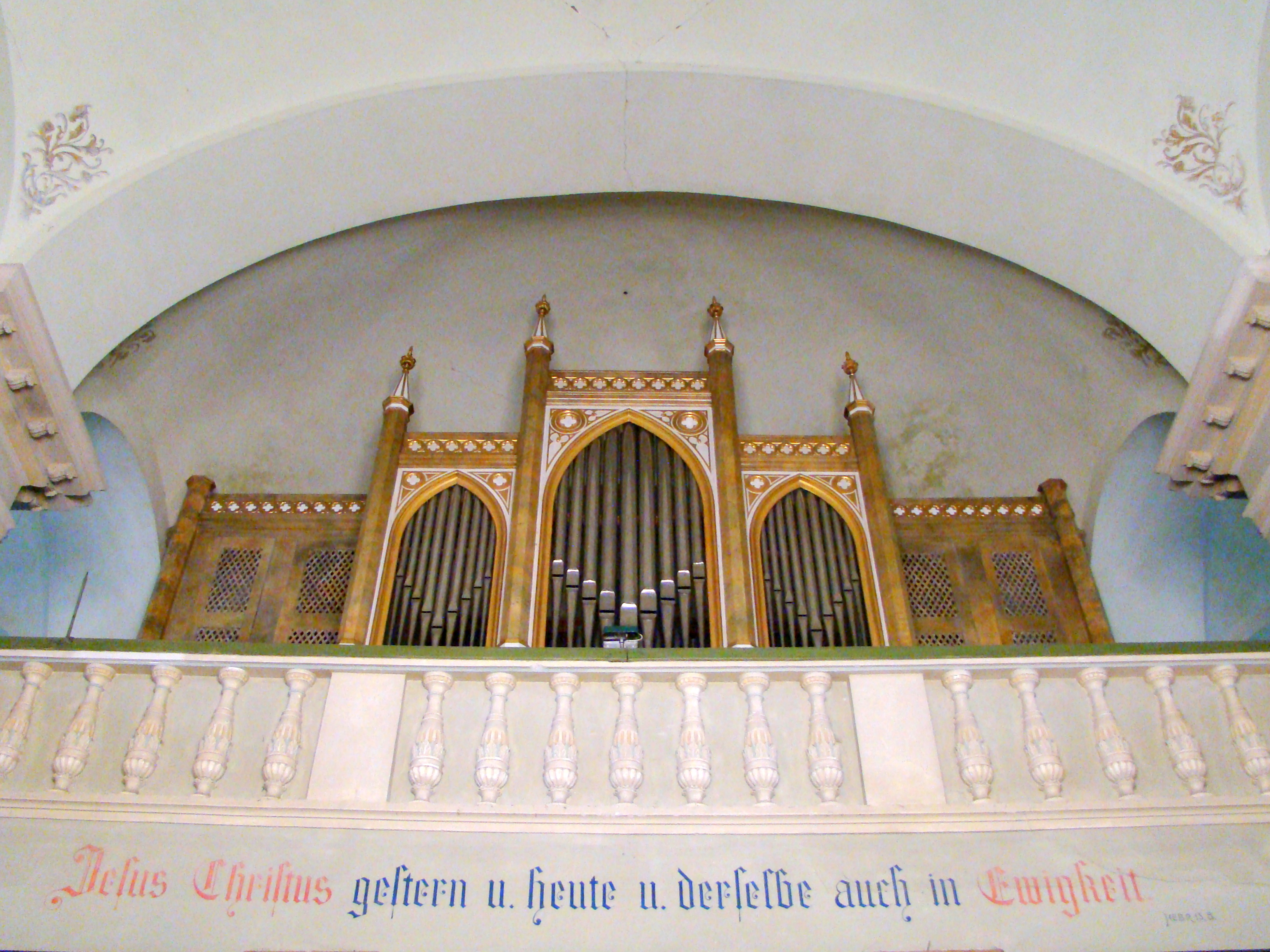 Fortified church in Cristian, Brașov County, Romania